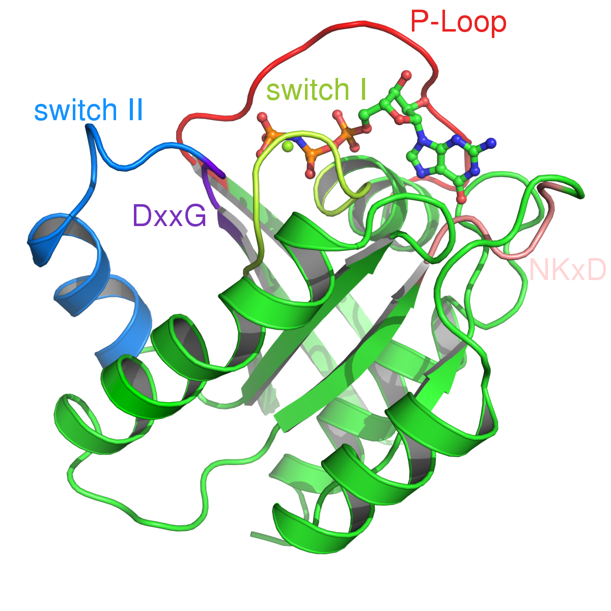 Structure of p21 Ras in complex with GppNHp and Mg